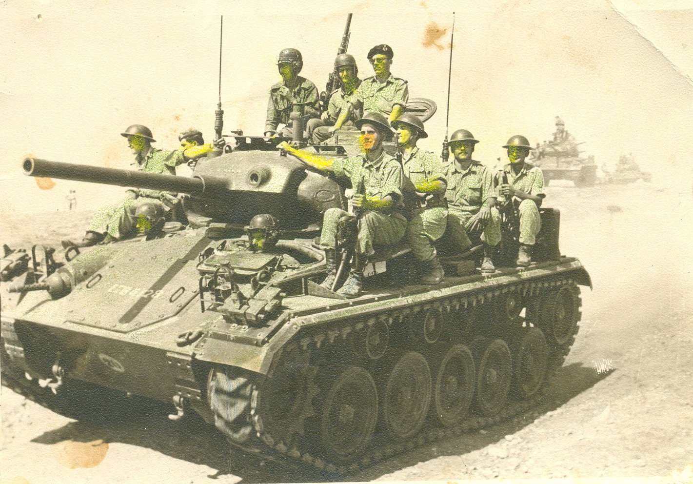 Picture of my father on top of a Greek M-24 Tank